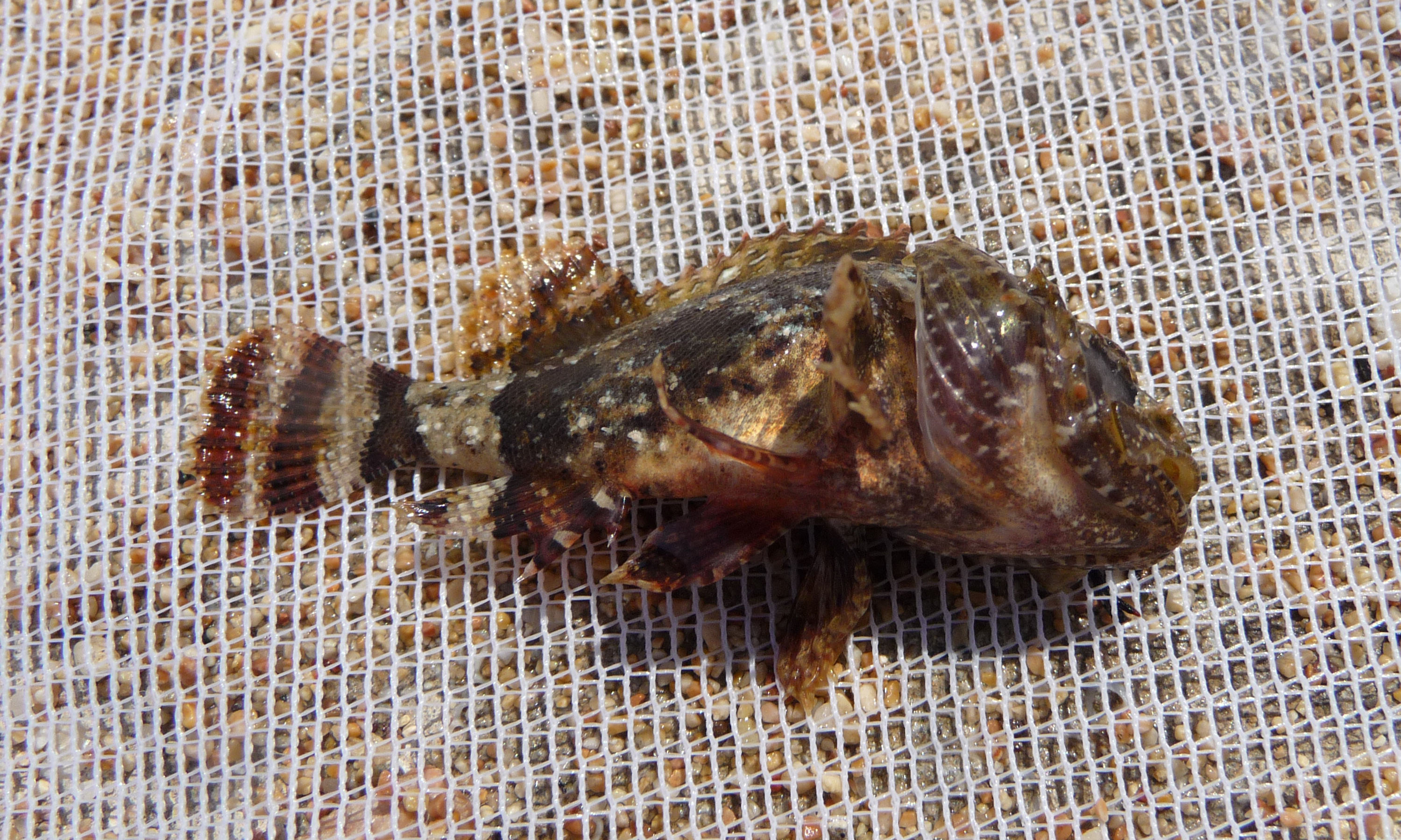 Black scorpionfish Scorpaena porcus. This fish has been caught in Black sea. After very short photosession the fish was released back to the sea.